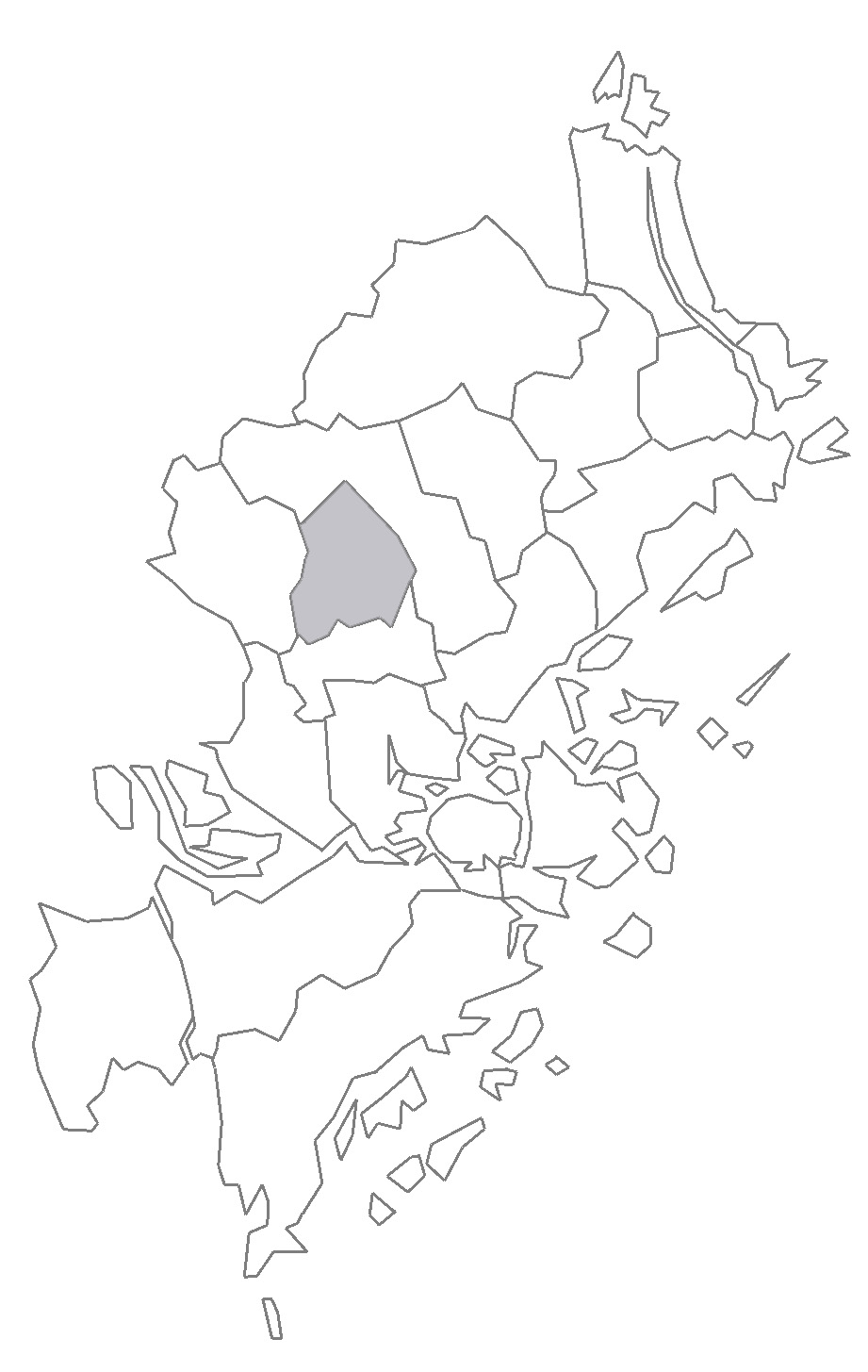 Map describing the location of Seming Hundred in Stockholm County, Sweden.